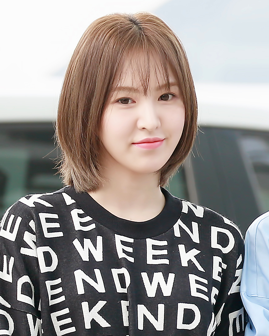 Wendy at Incheon Airport on September 9, 2019.